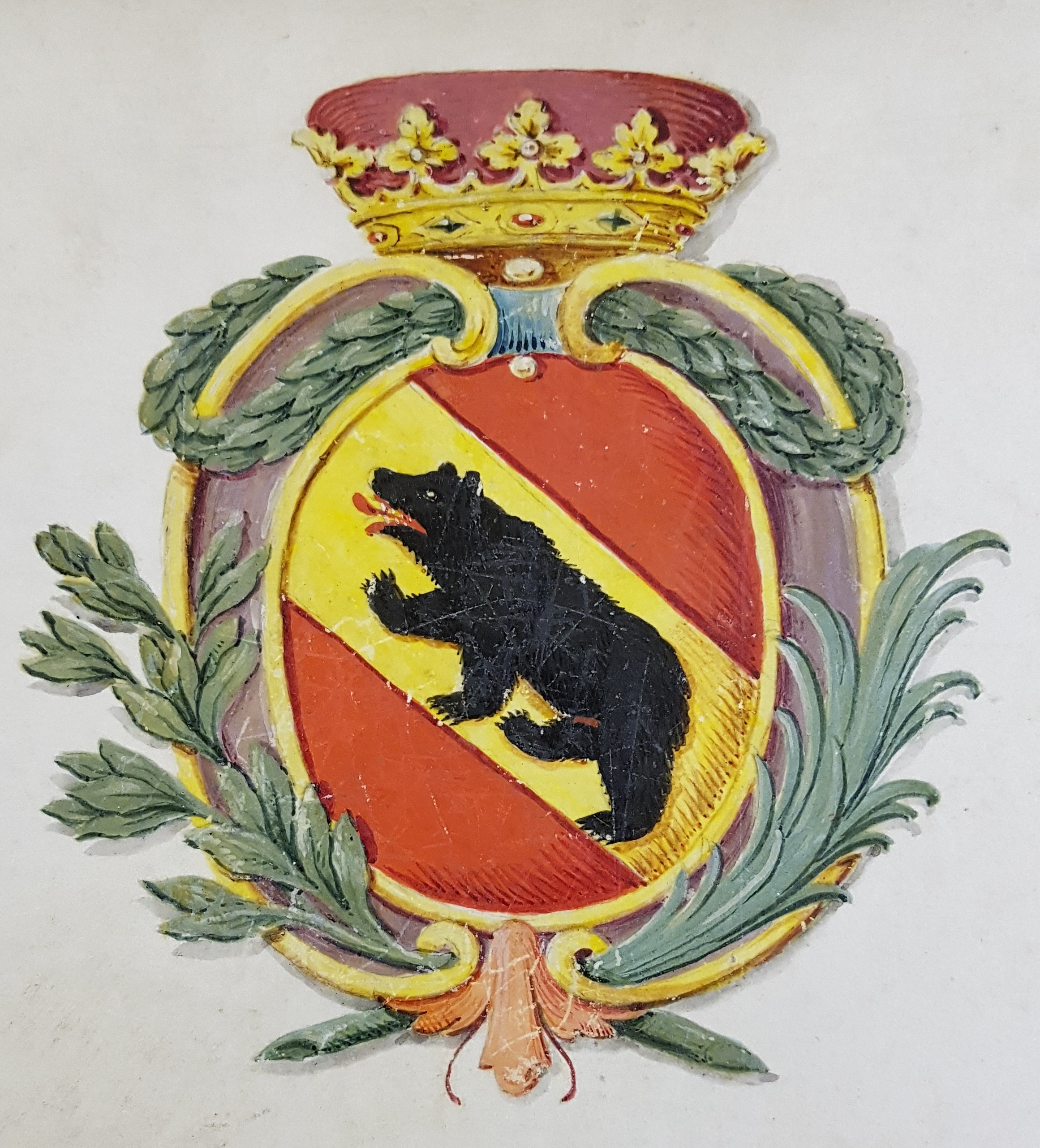 Coat of Arms of Berne, from the cover of the State Account Book, 1790. The trefoil crown signifies Berne's sovereignty as a republic.